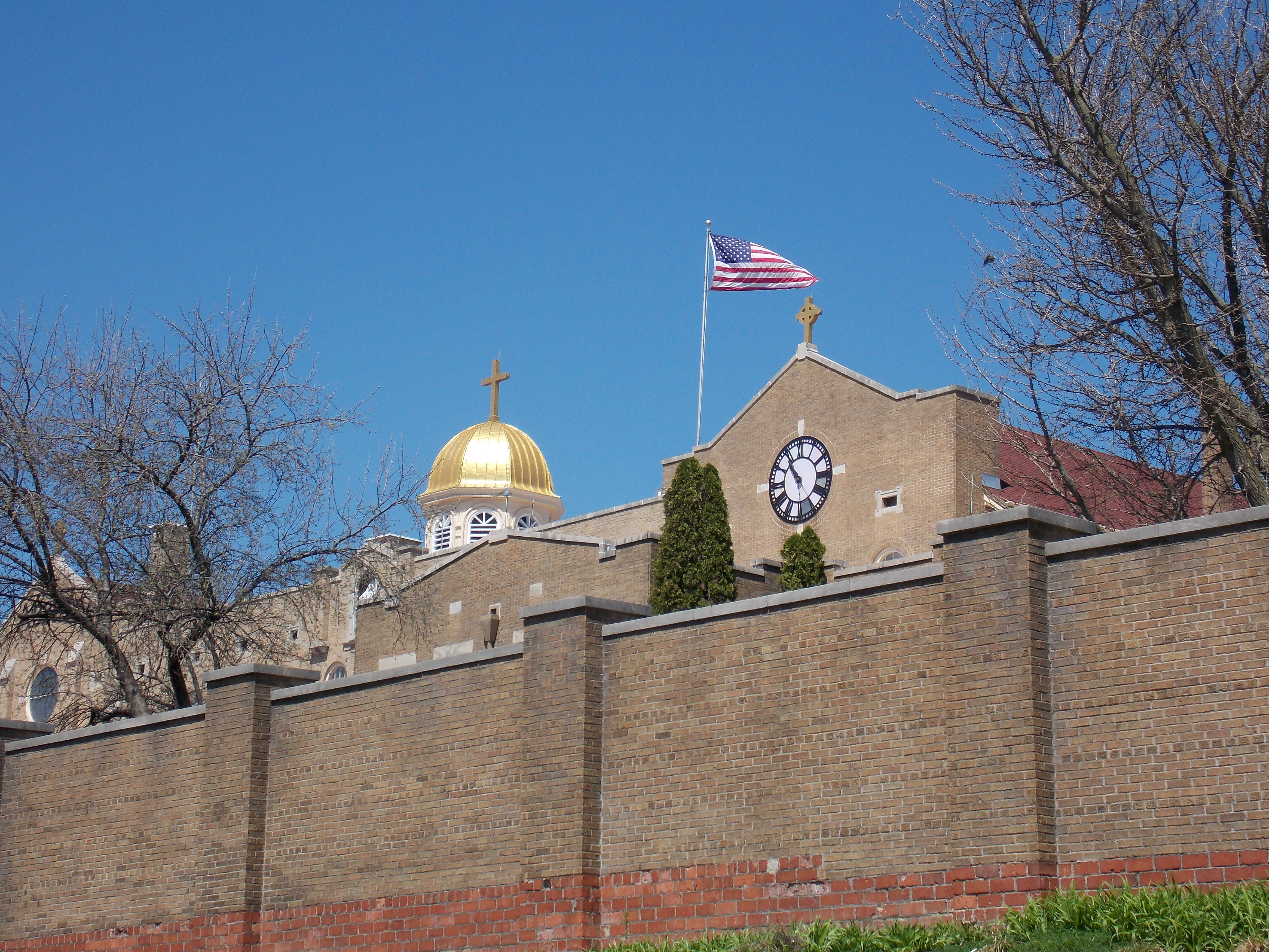 The cloister wall of The Abbey, the former Carmelite convent in Bettendorf, Iowa.